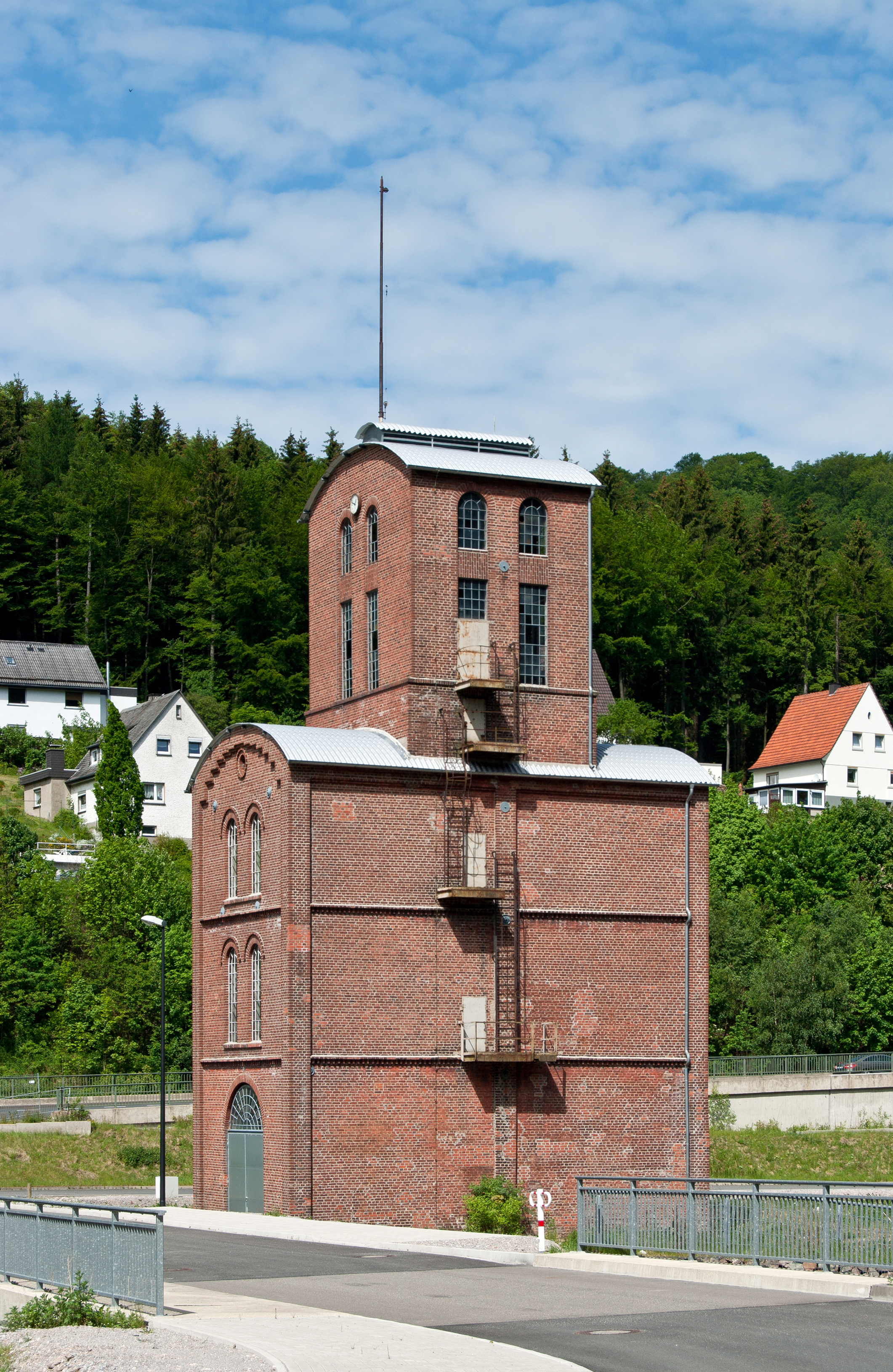 Brilon (North Rhine-Westphalia, Germany) – district Brilon-Wald – tower Essigturm This photograph was taken with a Nikon D3000